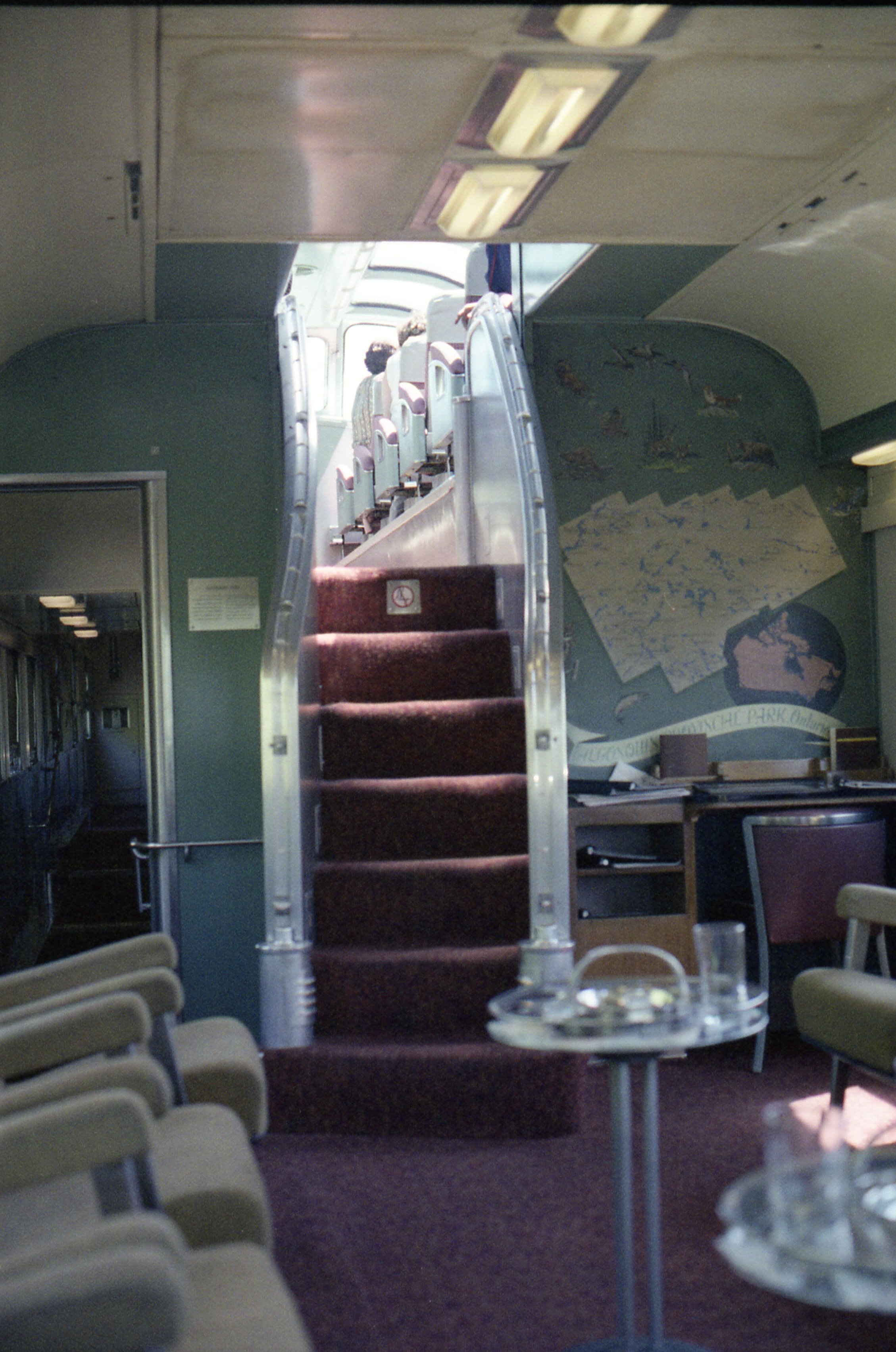 Inside the rear observation car on the Canadian Pacific Trans Continental train in June 1979. Upstairs the observation dome. Alongside the passageway to the left of the stairs is a splendid liquor bar. To the right of the stairs the writing desk for sending worldwide messages and telegrams through the attendant or writing monogrammed letters. The chairs are not secured and can be moved around. The car rode beautifully. Camera: Olympus OM1 35mm SLR. Film: Kodacolour.